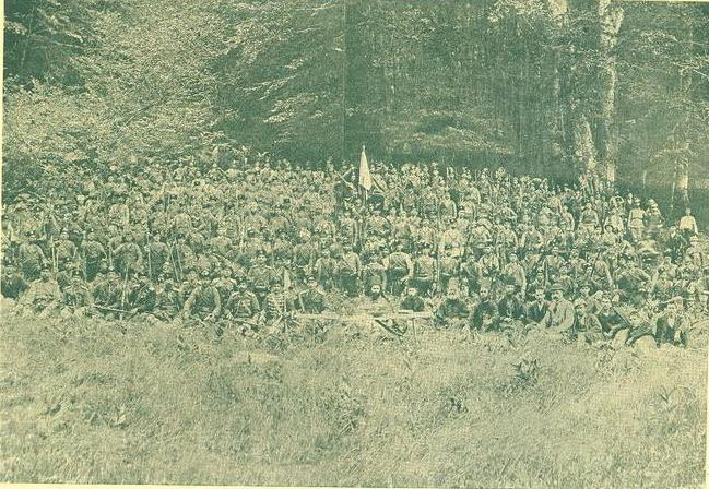 SMAC cheta of Stoyo Kostov, there is also Marko Lerinski